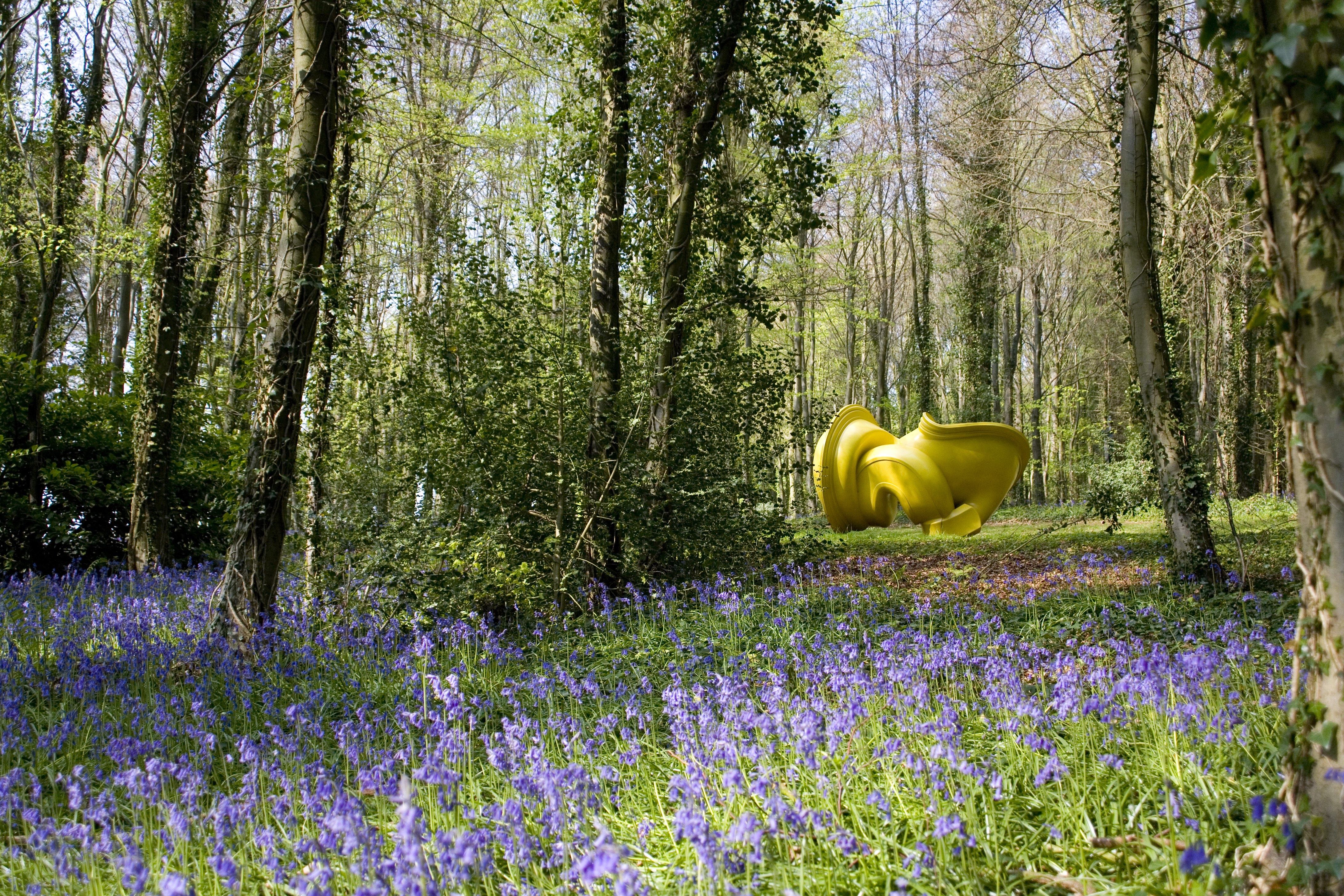 Tony Cragg's Declination at the Cass Sculpture Foundation, Goodwood, West Sussex, UK